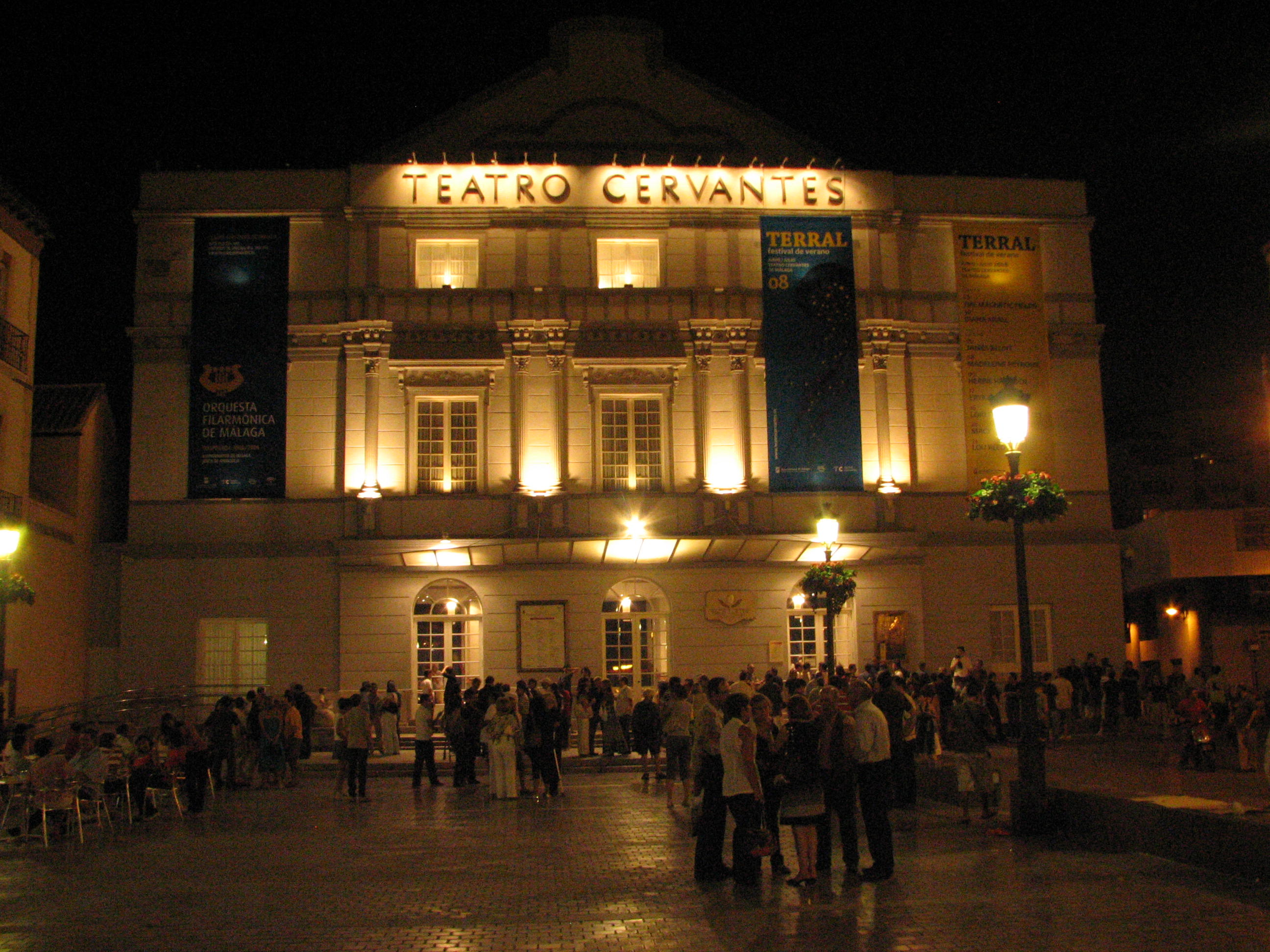 Teatro Cervantes, Málaga, Spain